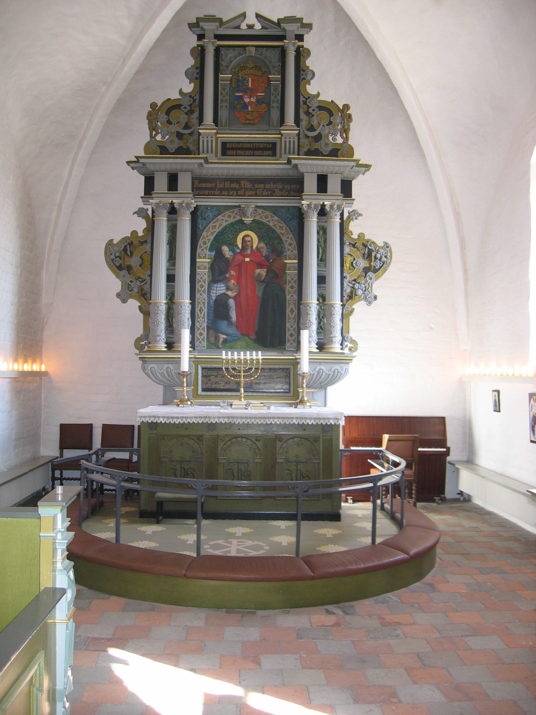 Vejby Church, Vejby parish, Holbo Herred, Frederiksborg County, Denmark.